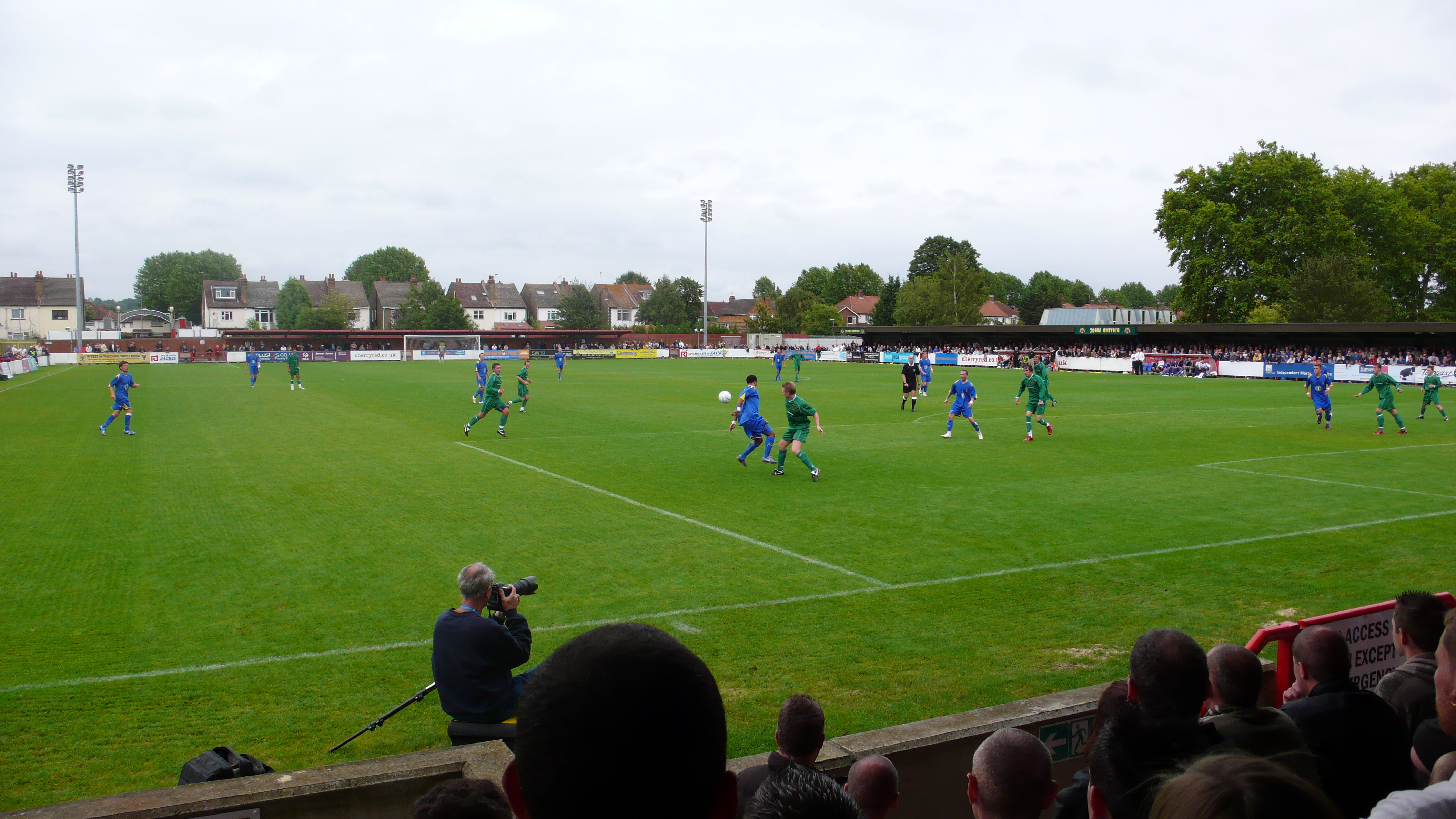 AFC Wimbledon take on Ramsgate on 18 August 2007.